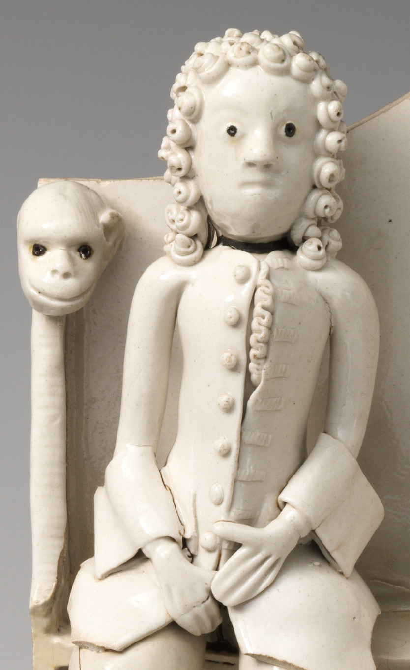 British, Staffordshire; Figure group; Ceramics-Pottery